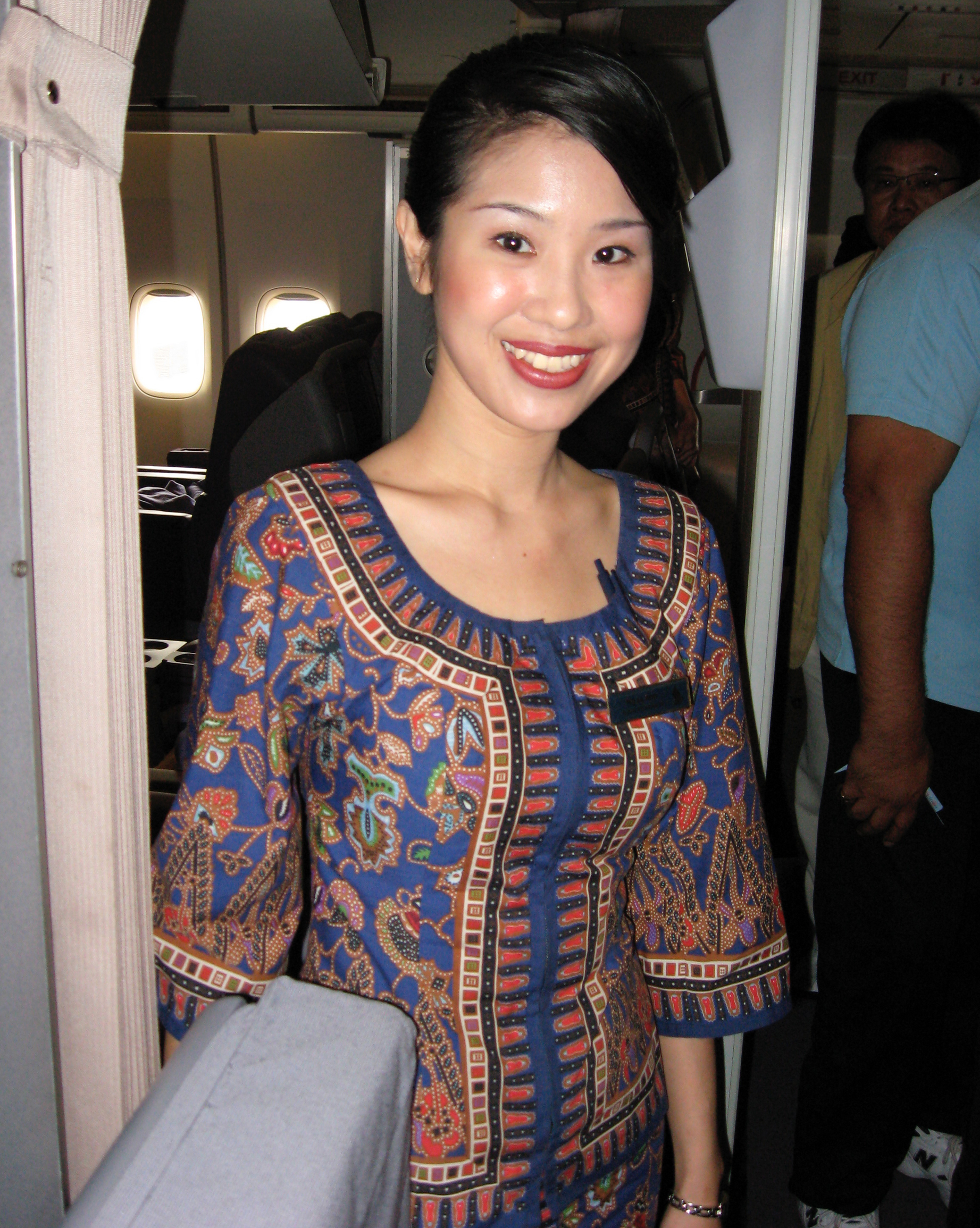 An air hostess for Singapore Airlines. April 8, 2007.